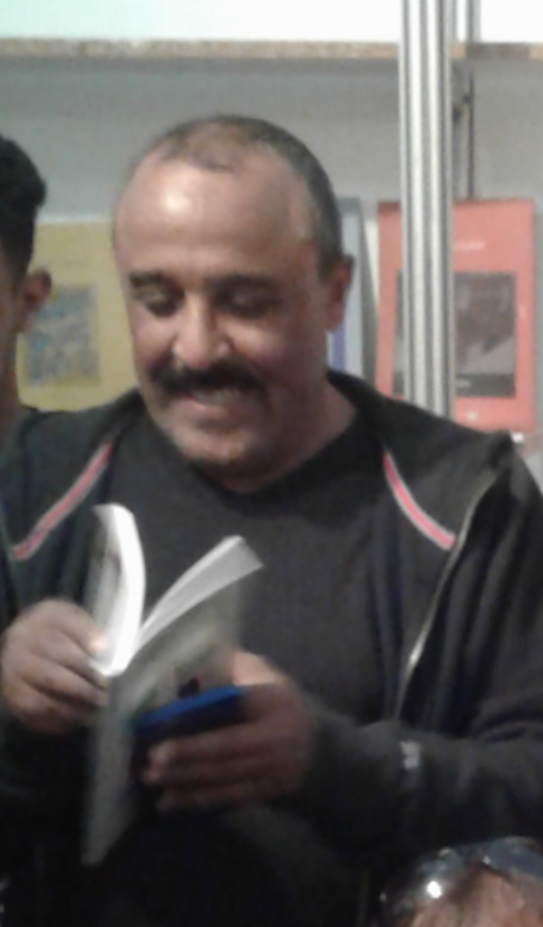 Moroccan actor Saïd Naciri in Casablanca's International Book Fair.